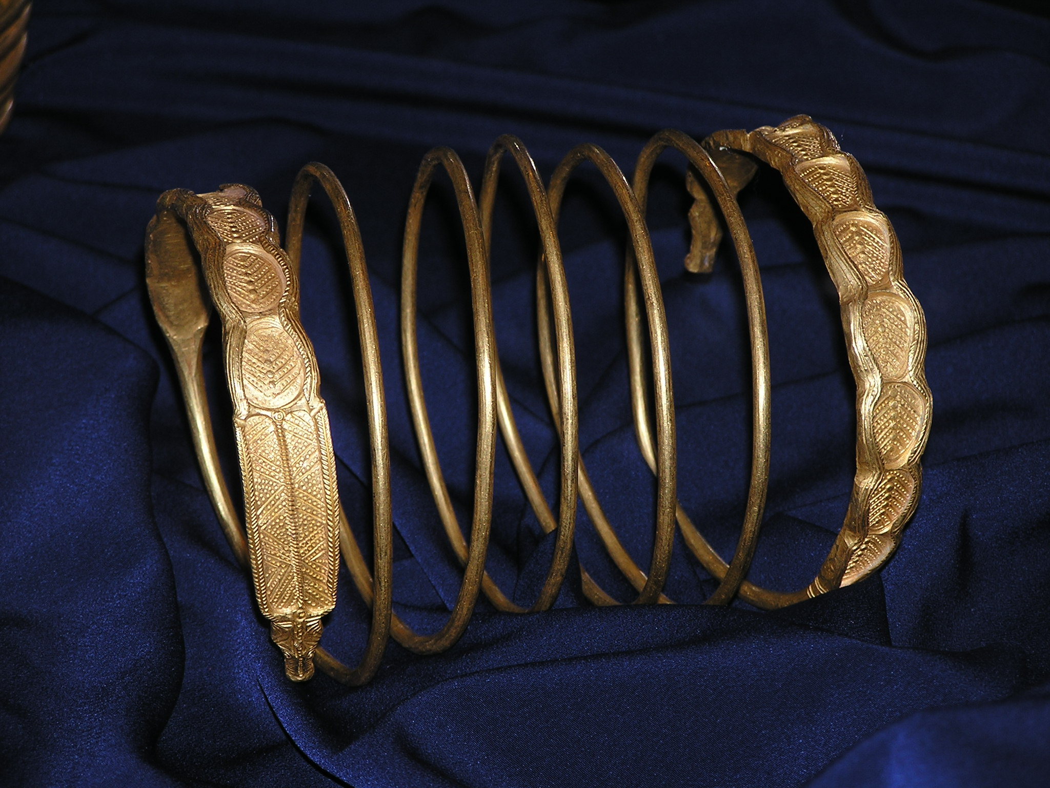 Dacian gold bracelet at the National Museum of the Union, Alba-Iulia, Romania.